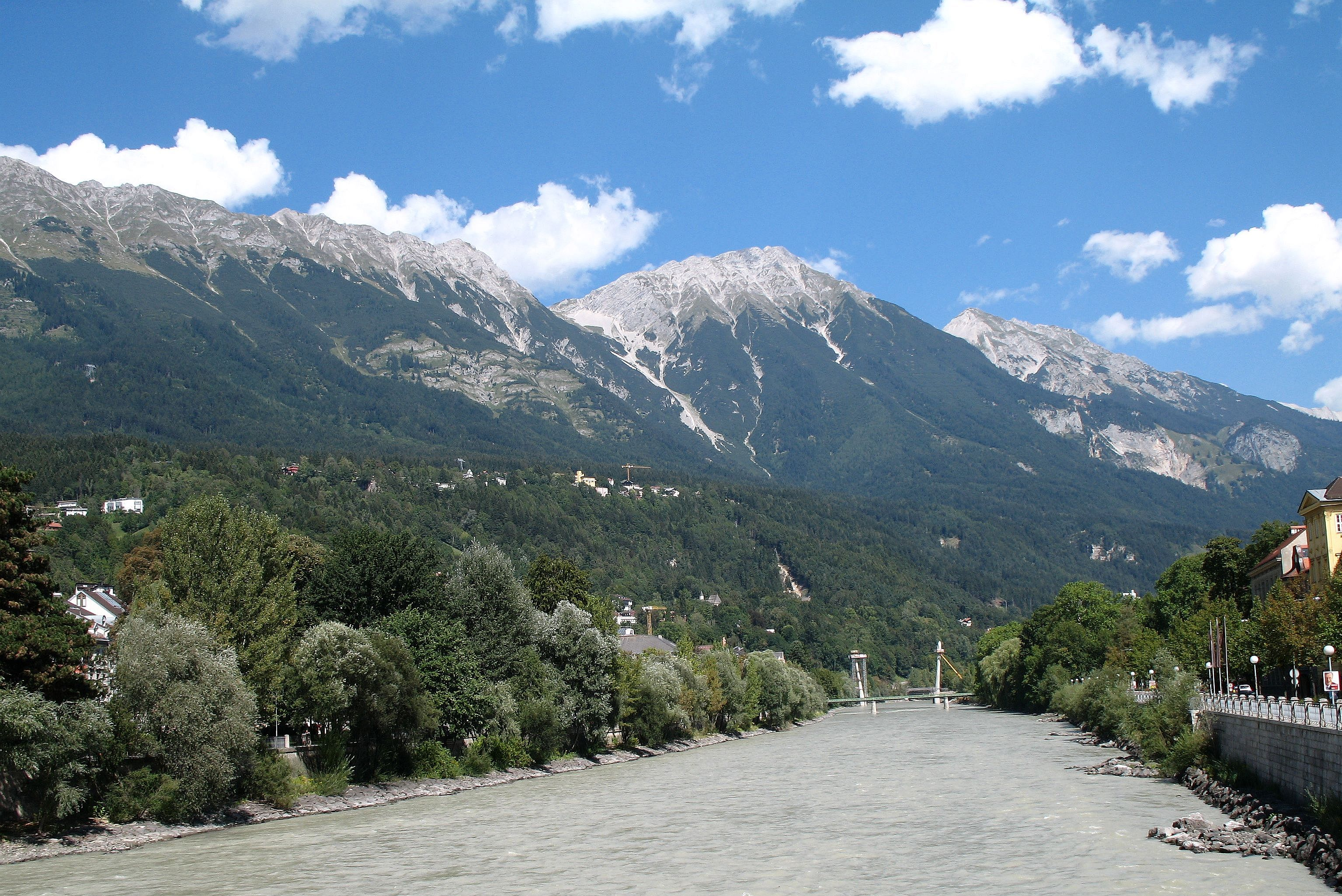 Eastern part of the mountain range Inntalkette north of Innsbruck as seen from the Inn bridge